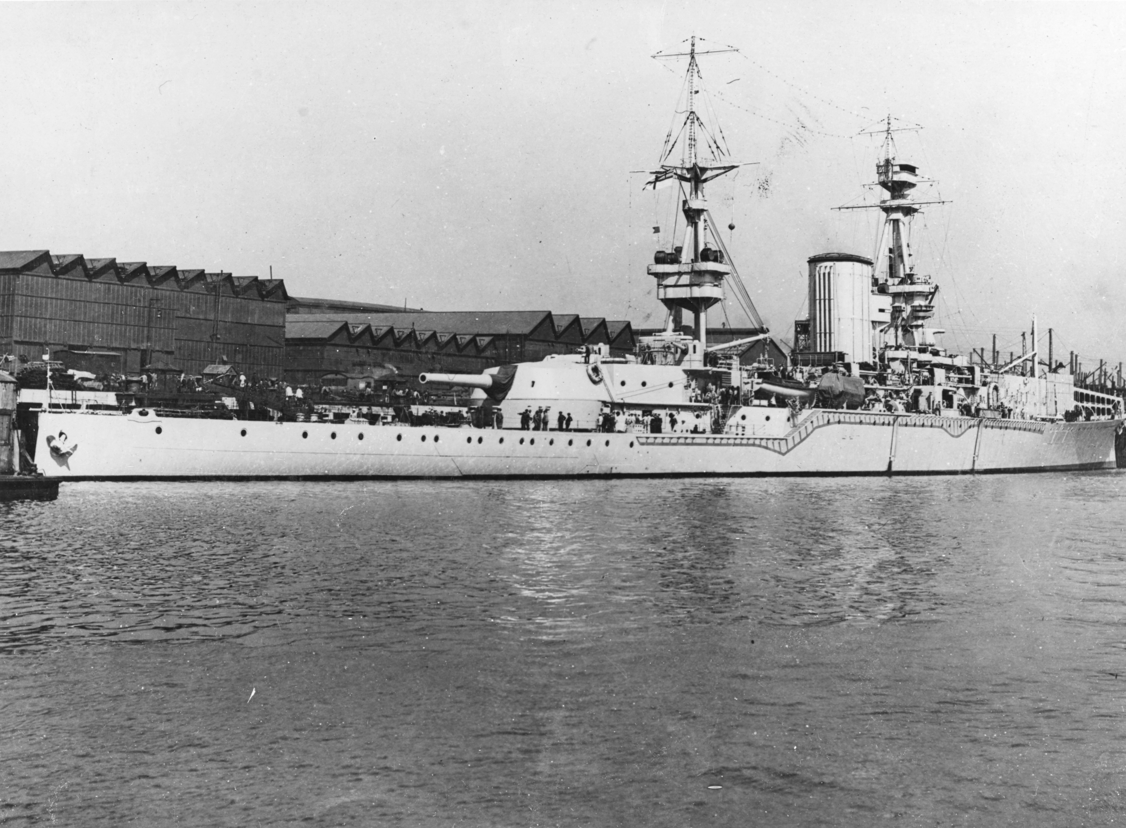 HMS Furious (British Aircraft Carrier, 1917-1948) Photographed when first completed in 1917, with a single 18-inch gun aft and flying-off deck forward.